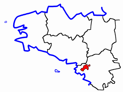 Description: Map for localisazion of cantons of Pays-de-Loire, region in France Source: made by Hervé Tigier in april 2005 from another large map (published in 1990)